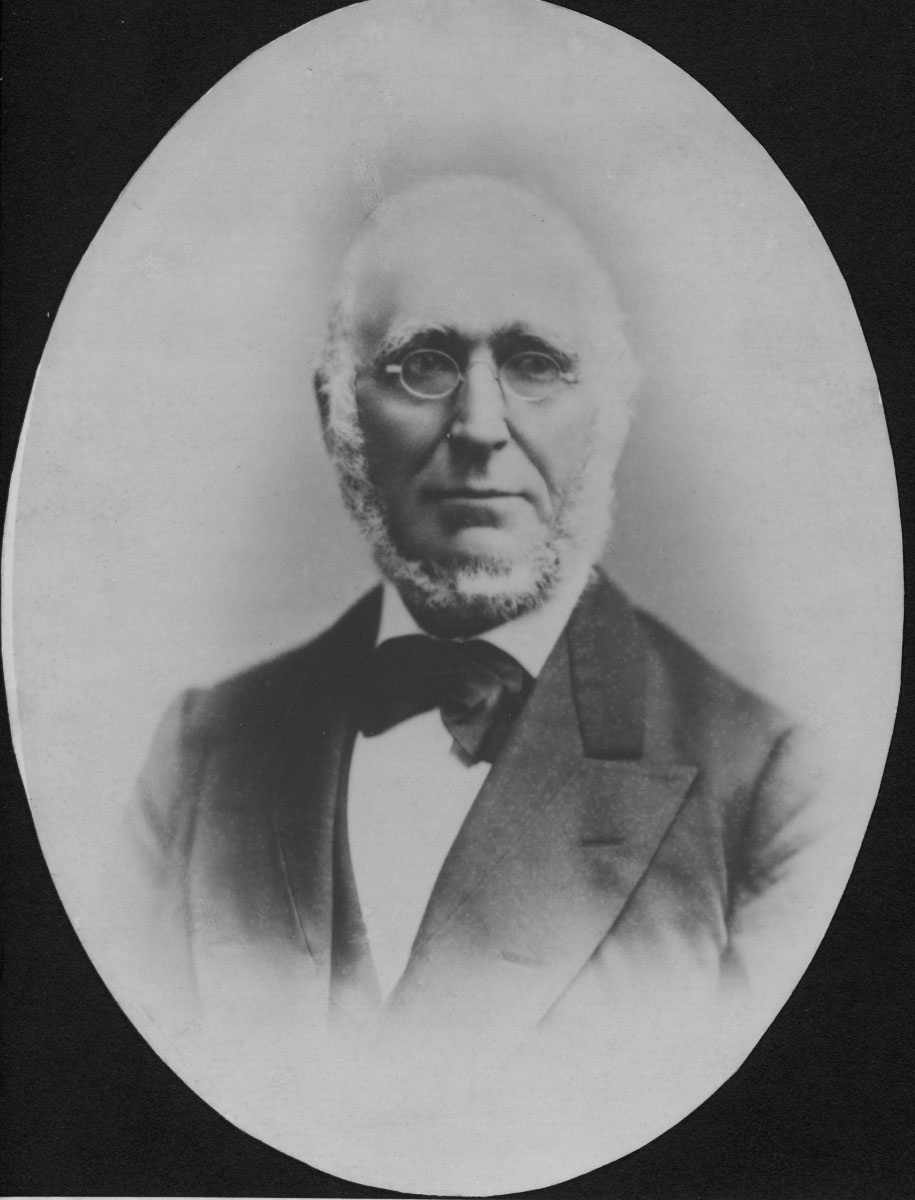 Samuel Northrup Castle (1808–1894) was a businessman and politician in the Kingdom of Hawaii, founder of the "Big Five" corporation Castle & Cooke which still exists today.